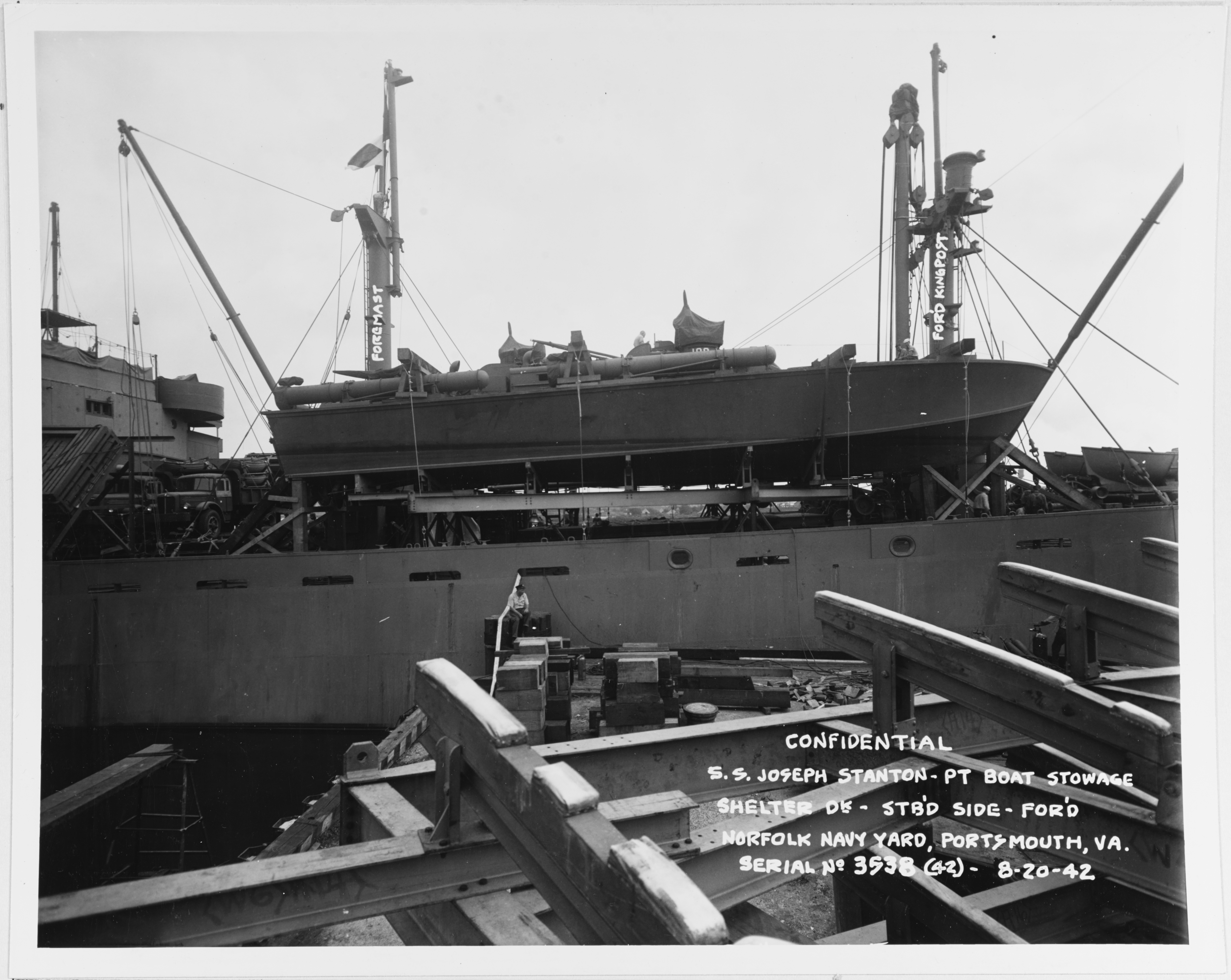 USS PT-109 stowed on board the "Liberty Ship" Joseph Stanton for transportation to the Pacific.